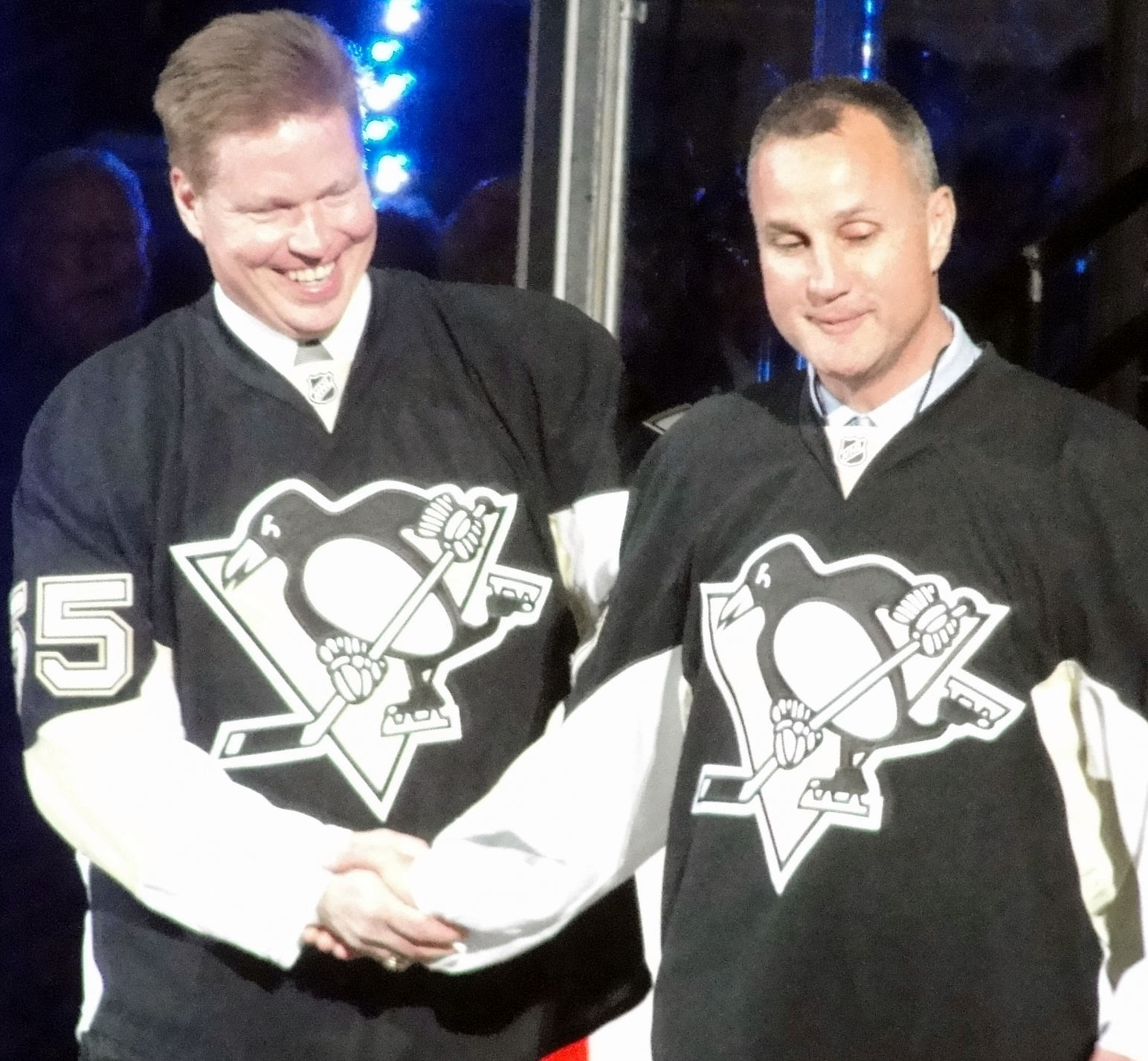 Larry Murphy and Paul Coffey shake hands as they are introduced during a pregame ceremony for the final regular season game at Mellon Arena, April 8, 2010.